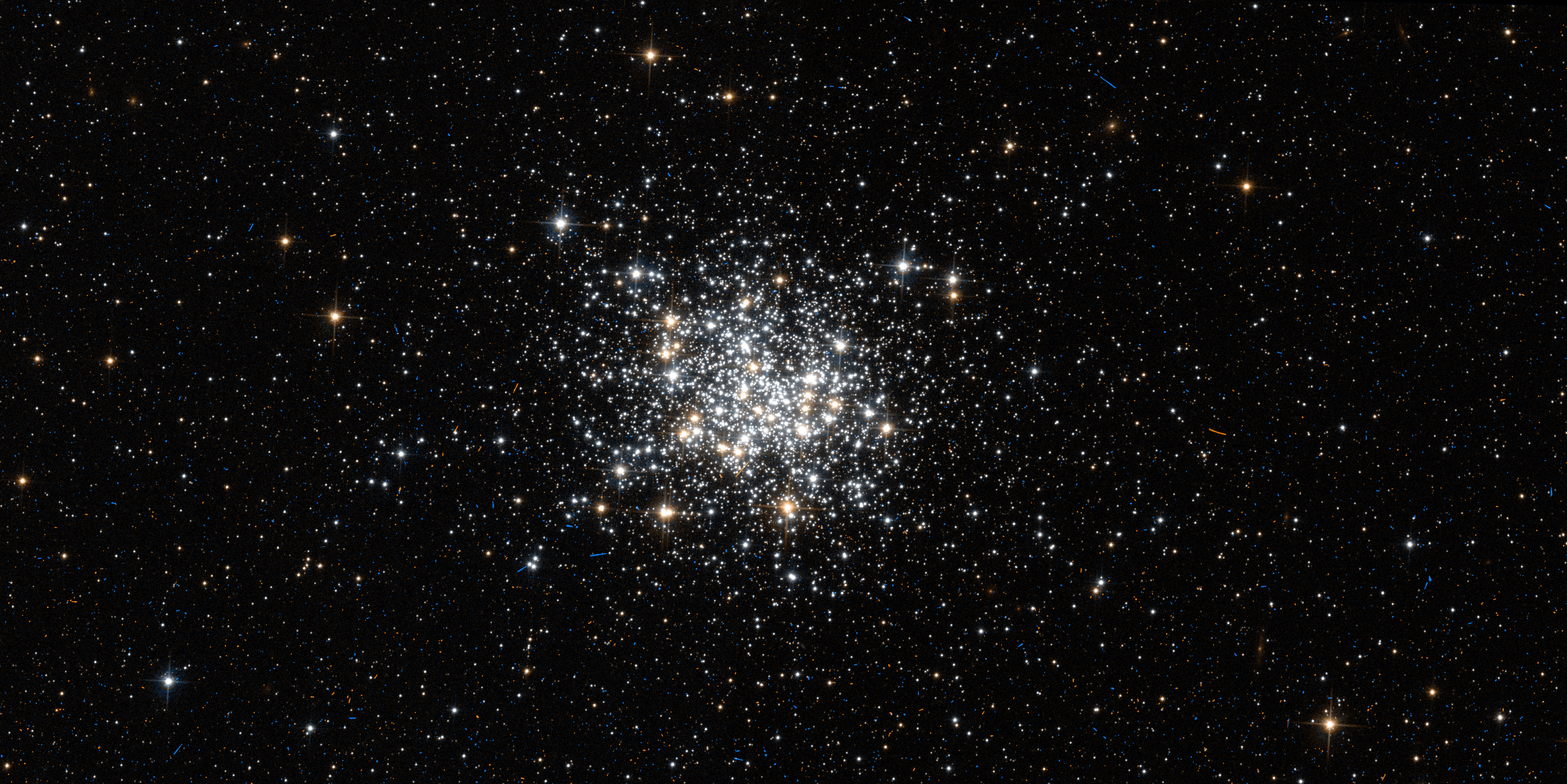 Color rendering is done by by Aladin-software (2000A&AS..143...33B.)